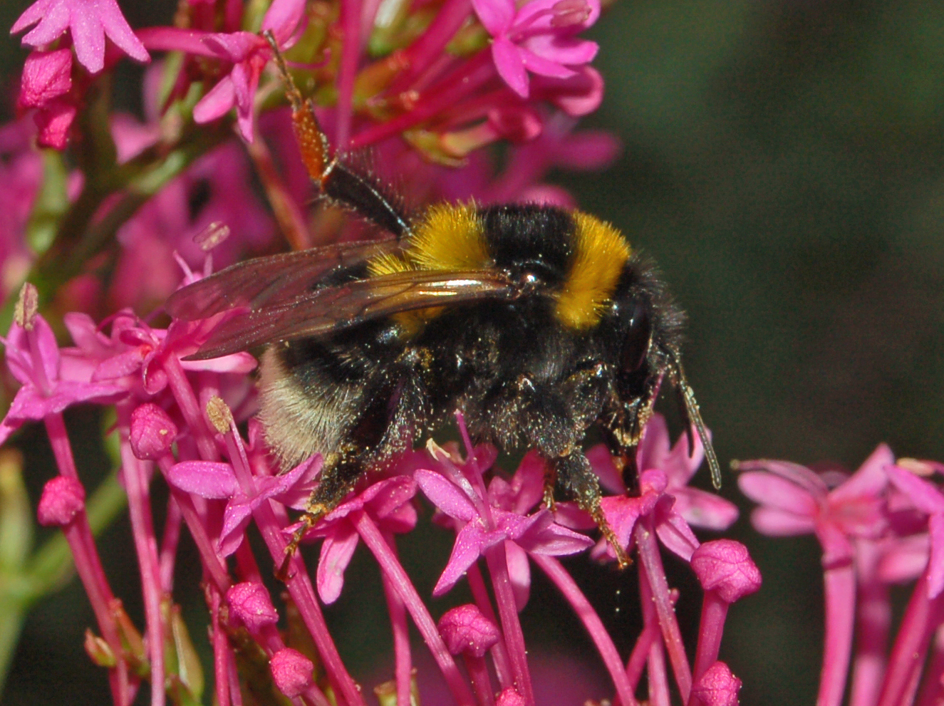 Bombus ruderatus on Red Valerian, Genova, Italy